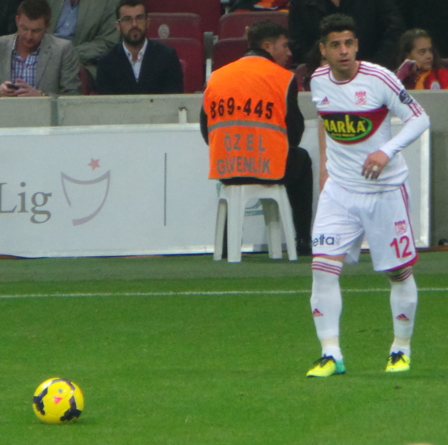 Cícero João de Cézare